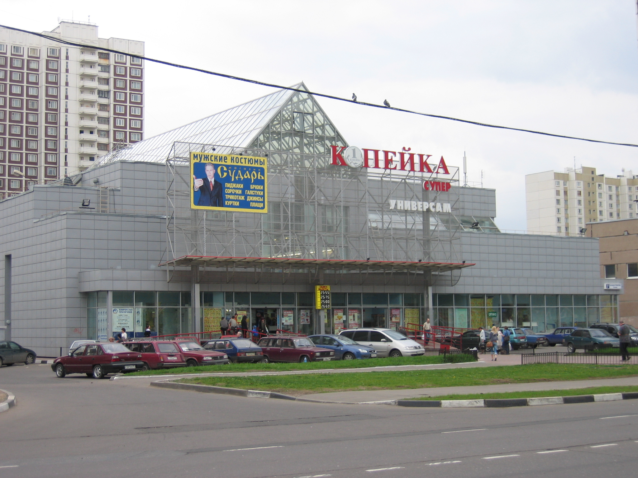 Kopeyka supermarket in Butovo, Moscow